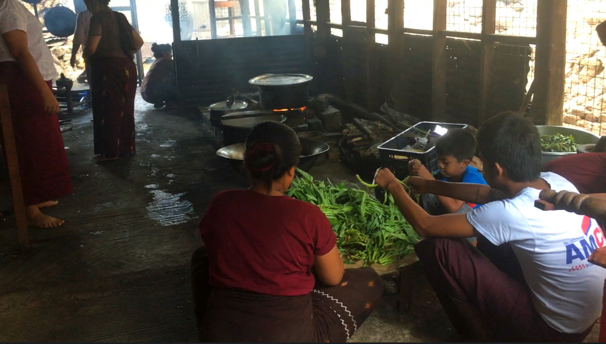 Kitchen on top of Kaylartha, where laymen prepare food for the monks and pilgrims- Brittney Tun